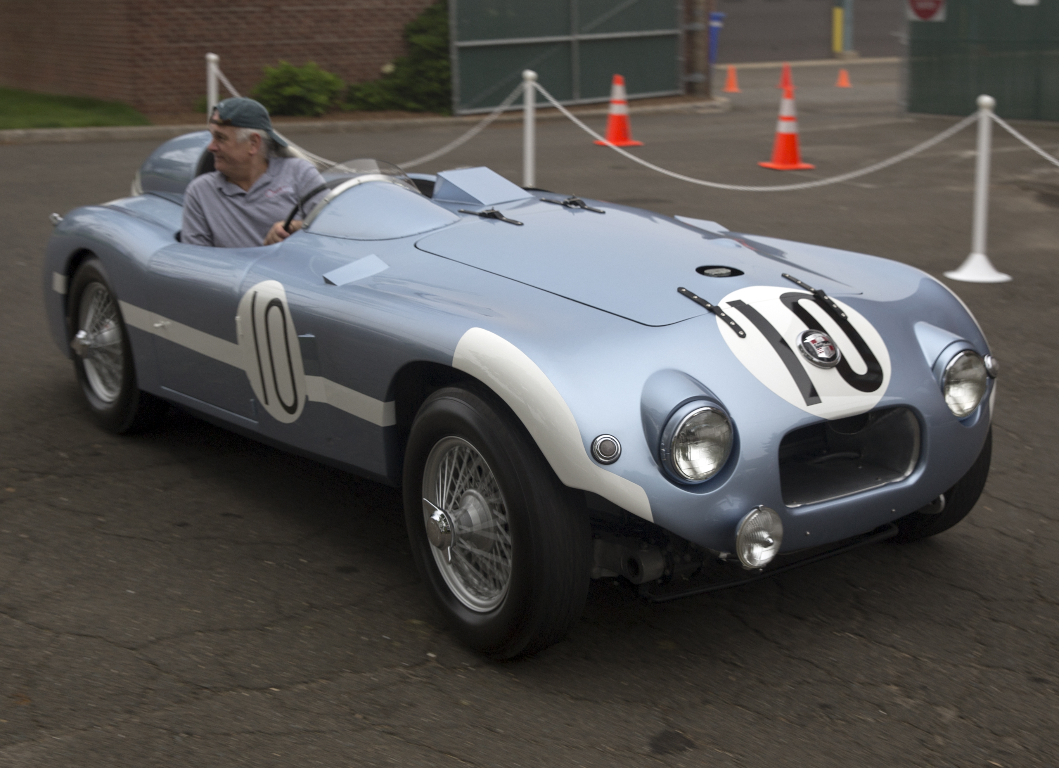 1952 (sometimes also called a 1950, it may have been built atop an earlier chassis) Nash-Healey Competition Roadster (s/n X8) entering the 2019 Greenwich Concours d'Elegance. This car finished third at Le Mans in 1952, but was denied entry at the concours this morning. Something about the transporter. It eventually made it in, but here the driver is reversing away from the entry gate.